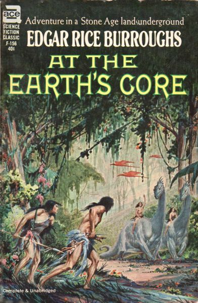 At The Earth's Core, Roy Krenkel cover, 1962 . When Ace Books published public domain titles, it generally did not include a copyright notice for the newly published cover. Moreover, a copyright search indicates that even if a copyright had been filed, it was not renewed.